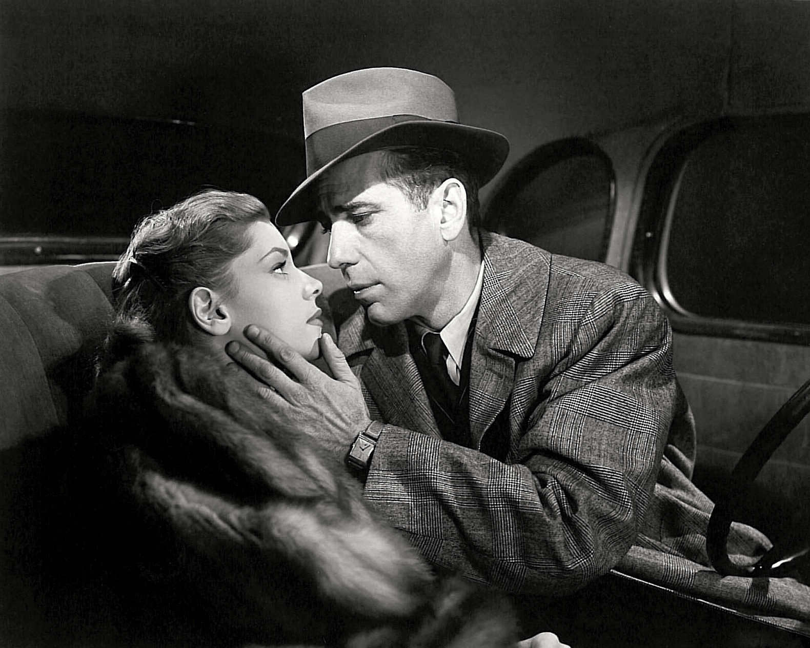 Publicity photo of Lauren Bacall & Humphrey Bogart in American noir film The Big Sleep (1946)